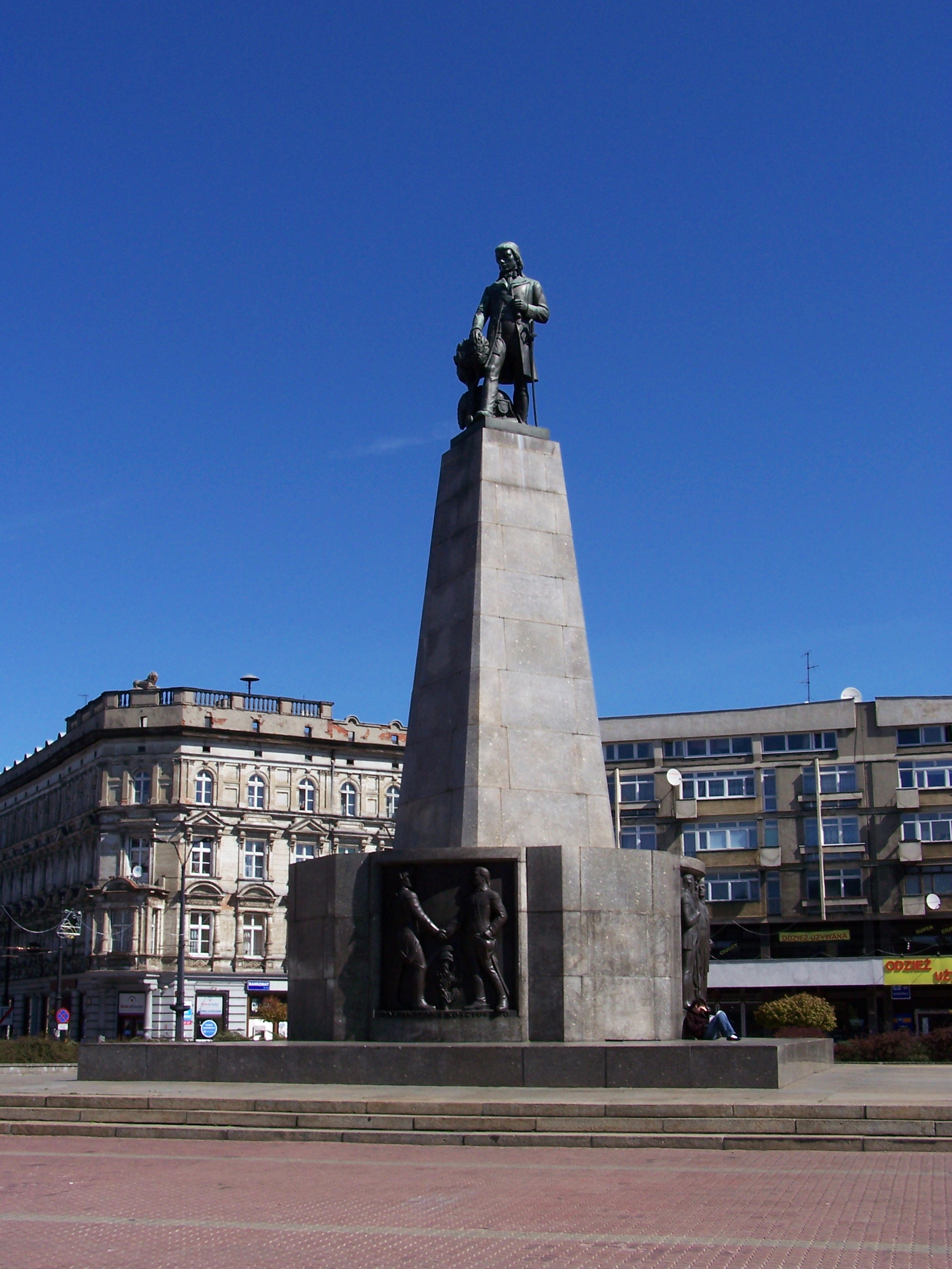 Monument of Tadeusz Kościuszko on the Liberty Square in Łódź (Poland).